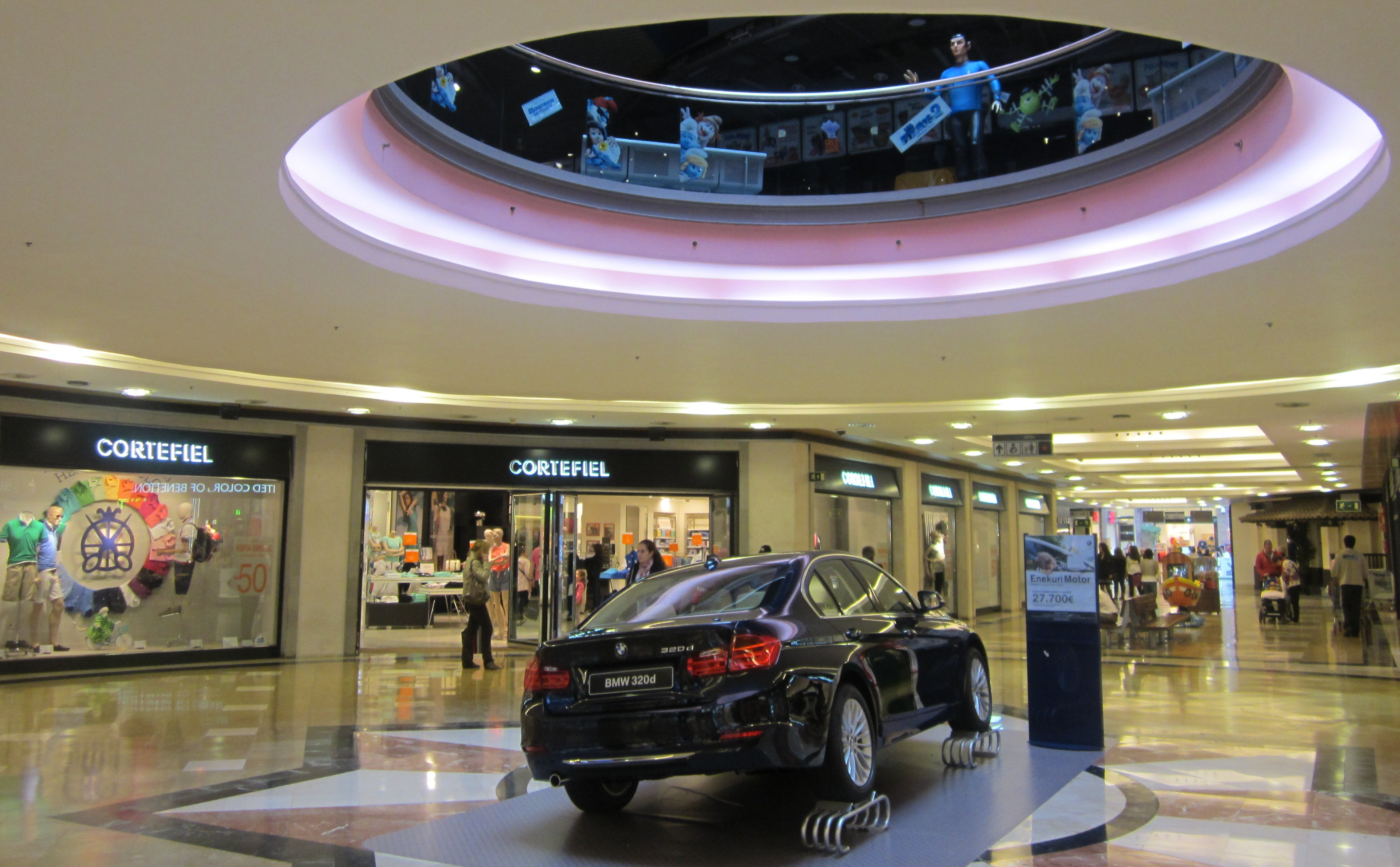 Interior of Artea shopping mall in Leioa, Biscay, Basque Country, Spain. June 2013.